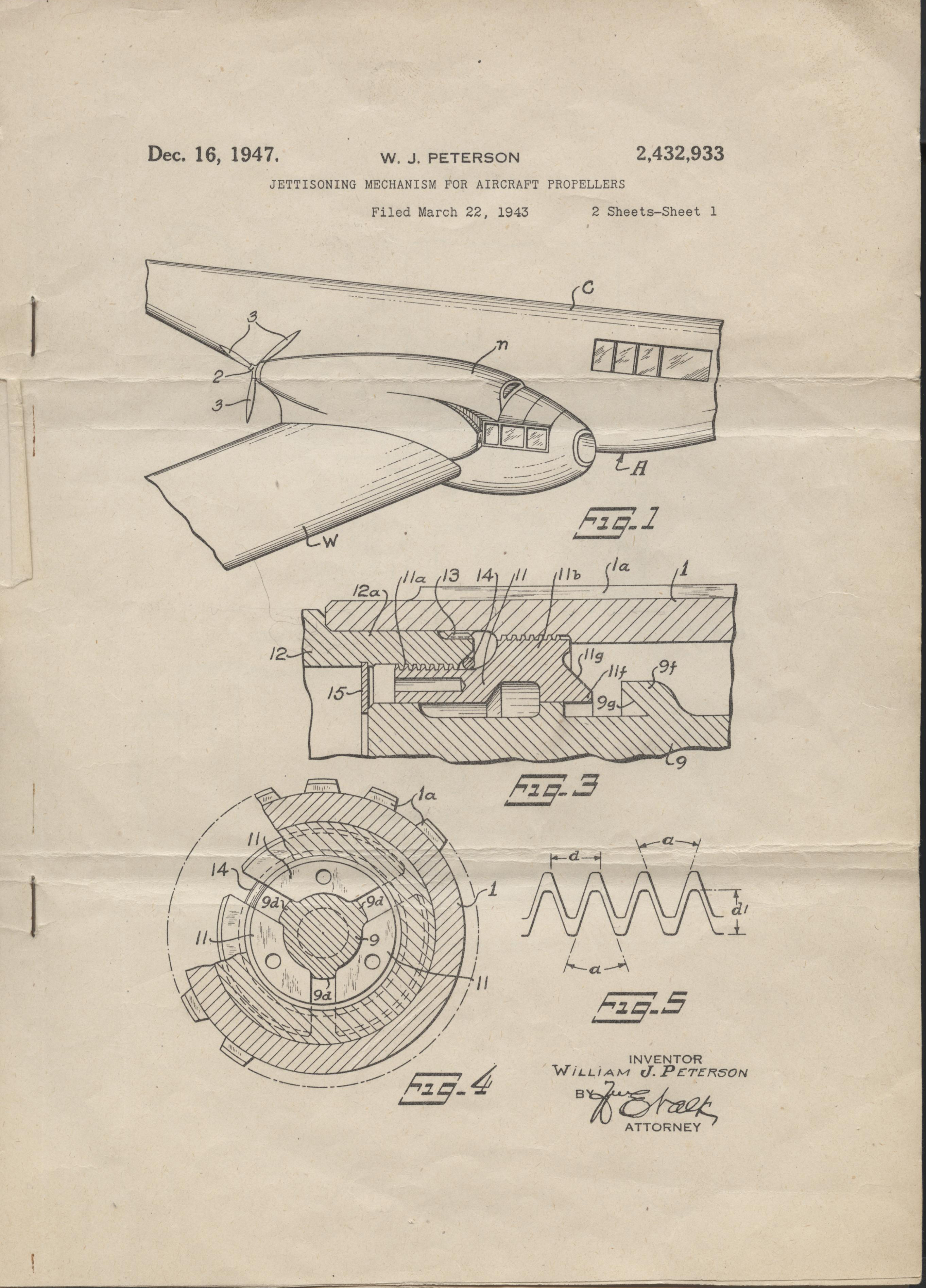 The is the original patent for the Jettison device. W. Jerome Peterson was my father.